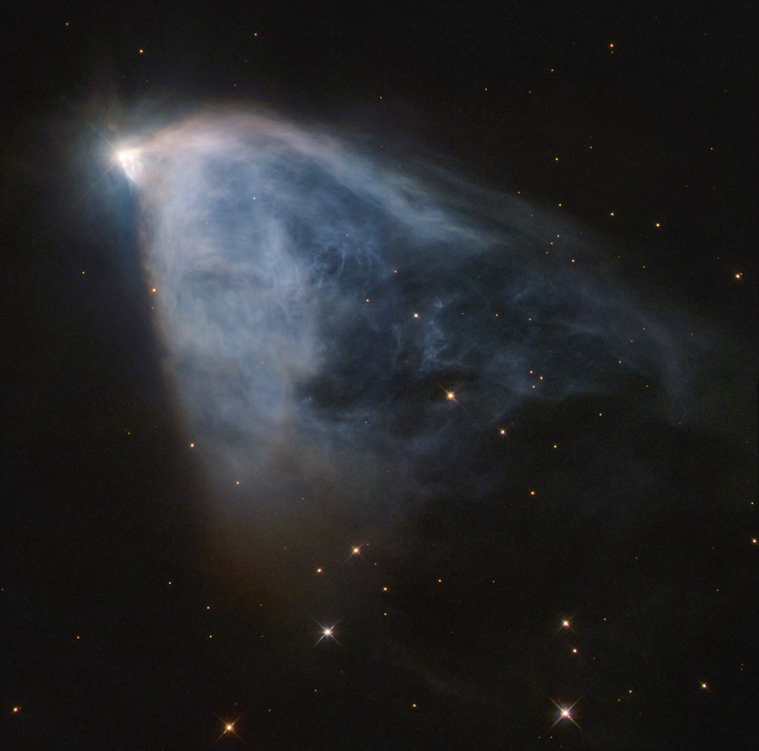 This is a reprocessing of one of the older Hubble Heritage releases. I believe that when it was originally processed that the individuals responsible did the best they could with the tools they had. Better software and faster computing allow me to improve significantly upon the original, which was created in 1999. This object lies along the Milky Way's dusty plane in the constellation Monoceros. One of my favorite things about this kind of nebula is that it reminds us that there can be a lot unseen in space. An optical illusion is produced by human intuition: it may look to you as though this is a bright cloud against a dark surface. In reality, this is a small hole in a largely unseen cloud which allows for light from a newly forming star to shine through. The variation in the nebula is most likely caused by shadows being cast by blobs of dust accreting near the young star. Note that the accretion process and the star itself are impossible to see in this image, and they occur at a scale too small and too distant for Hubble to see in any detail. The presence of the dusty knots and their close proximity to the star can be inferred by the shadows they cast and how fast they move across the nebula. Because the nebula is around a light year in size, the shadows appear to flow outward, which demonstrates to us the speed of light (or the speed of darkness?) in a way that I find profoundly beautiful. Wouldn't it be wonderful if the telescope could observe this object many more times so we could watch the light flow lazily through the Universe? I found a ground-based animation of the nebula's variation here: Some more information and the original news release is here: An APOD is here: Data collected for Proposal 5574 made this image possible. WF/PC2 Cycle 4: Polarization Proposal Red: F814W;POLQ Green: F675W;POLQ Blue: F555W;POLQ North is 120° clockwise from up.